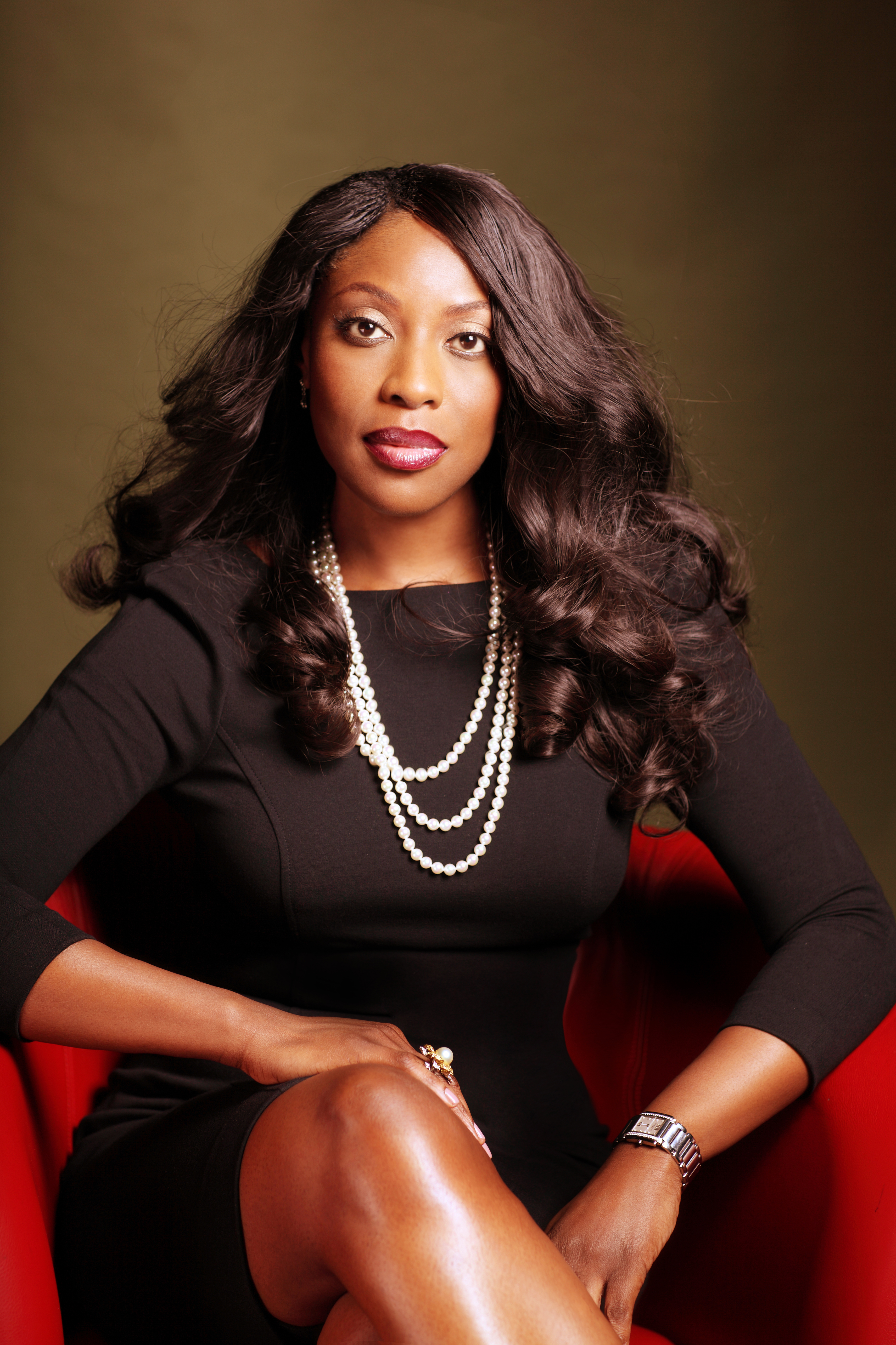 Mo Abudu